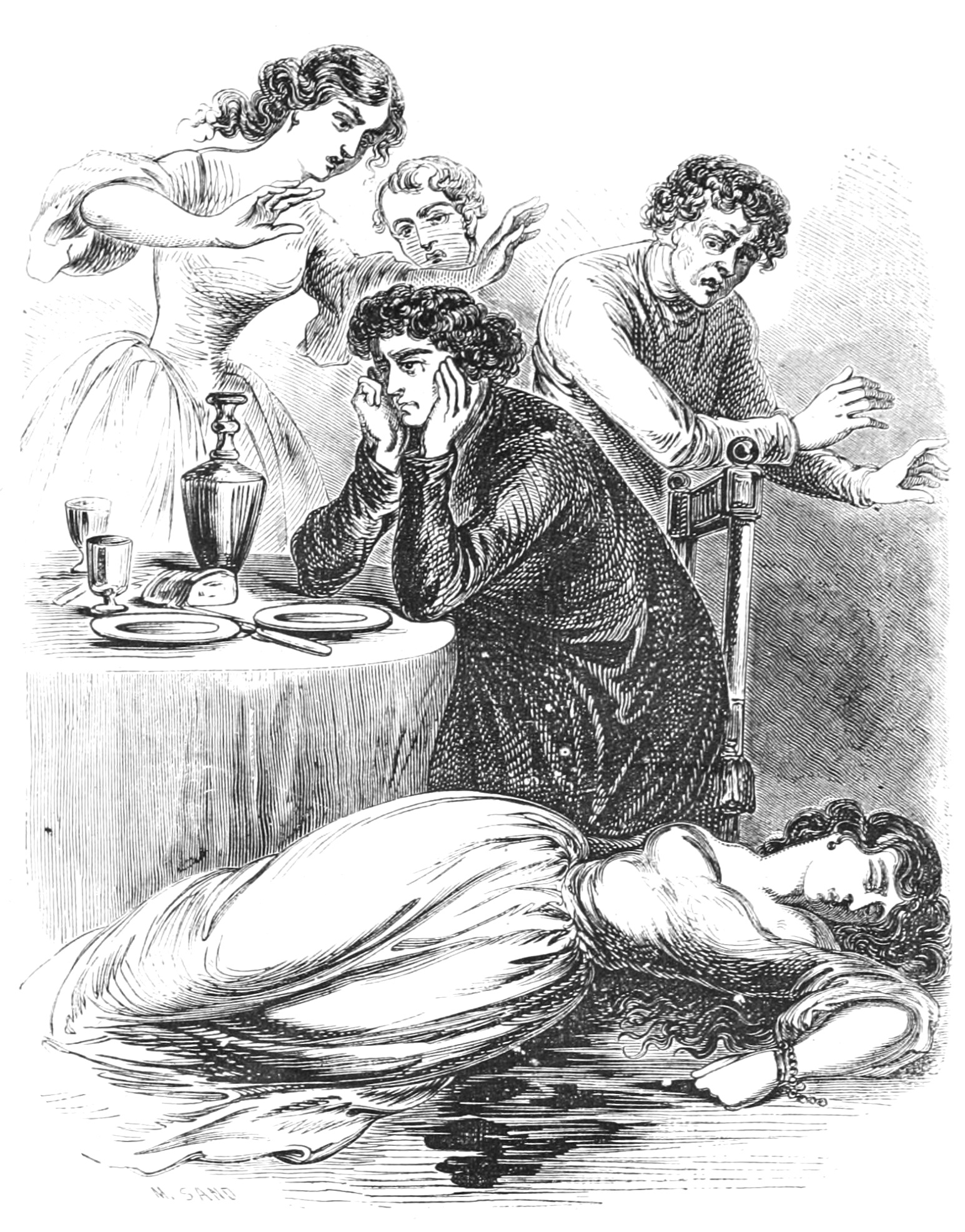 Illustration for George Sand’s novel Lélia by her son Maurice Sand